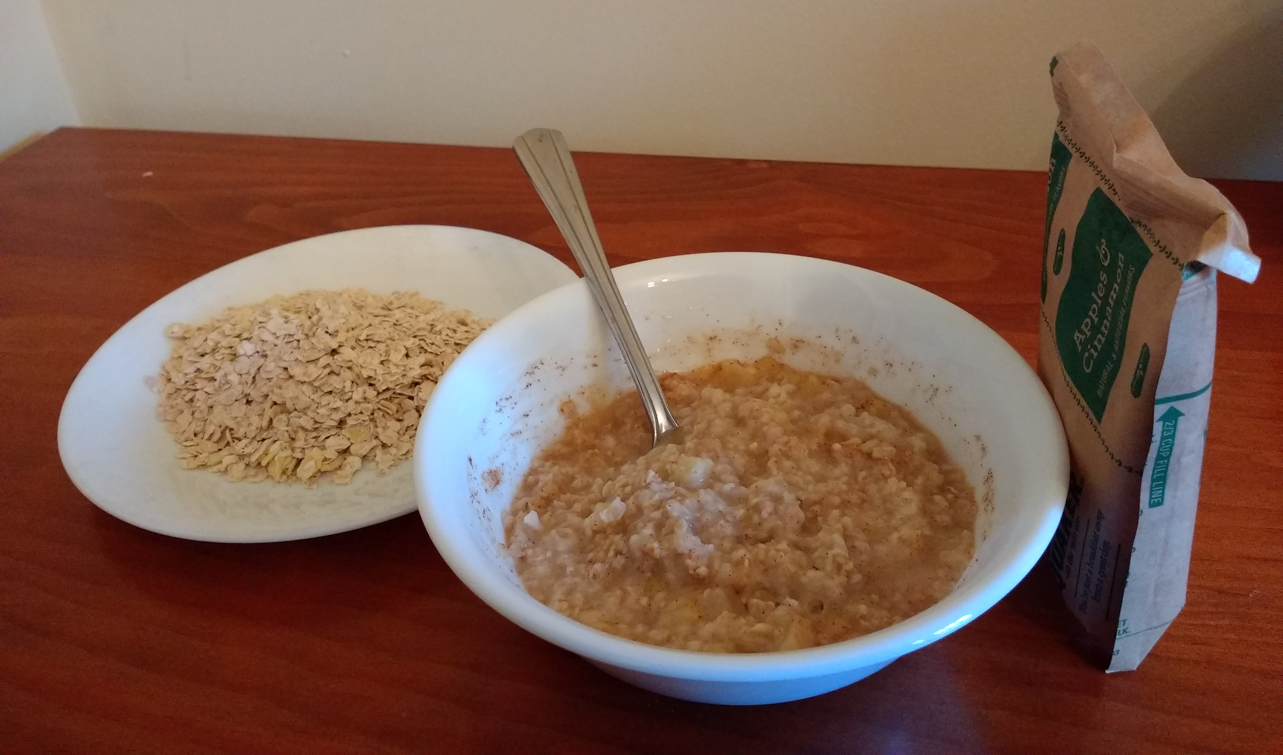 Quaker Instant Oatmeal, apples & cinnamon flavor. One packet, dry, on the left, a packet made in a microwave with water in the center, and an unopened packet on the right.